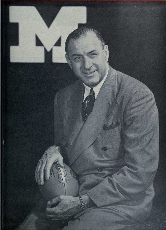 Photograph of Fritz Crisler